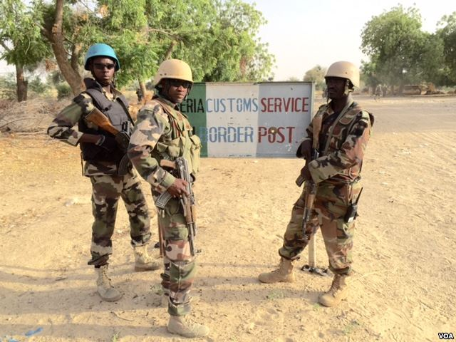 Nigerien soldiers in Diffa. This region in the far east of Niger is the target of attacks by Boko Haram.